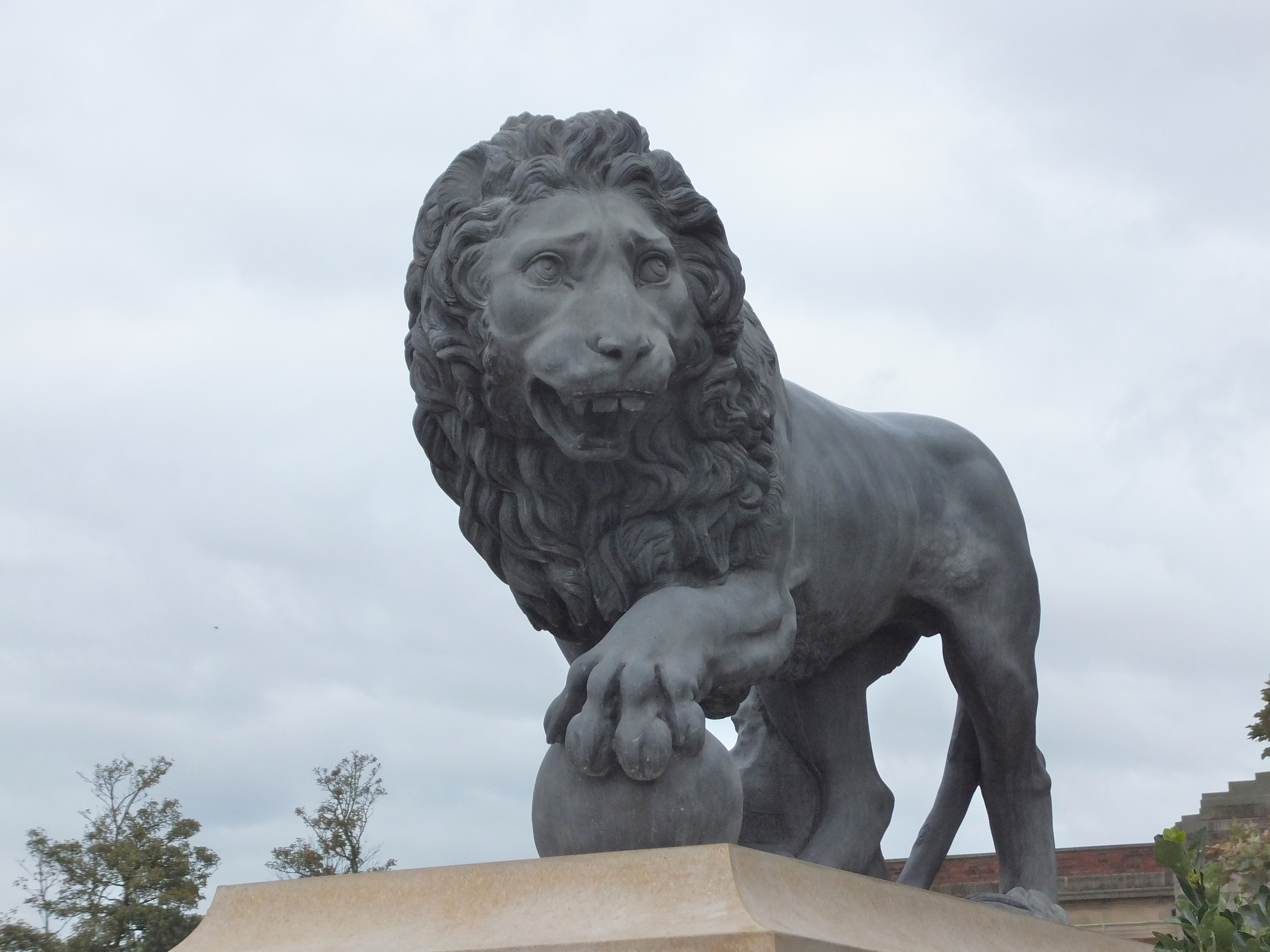 New lion statue, Stanley Park